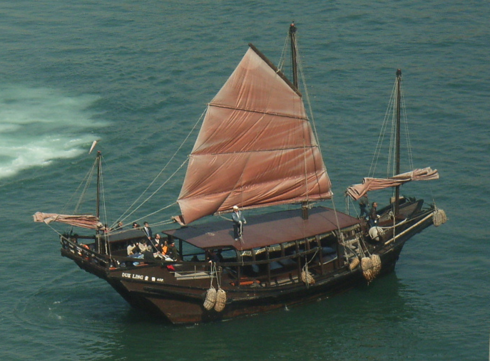 HK seaview from the 9th floor of City Hall, Central, Hong Kong Photo of User:WIBEAN (维基百科，自由的百科全书), upload in commons.wikimedia of 22-02-2006 Cut out this photo in 01-08-2006 Botaurus-stellaris and upload in commons.wikimedia